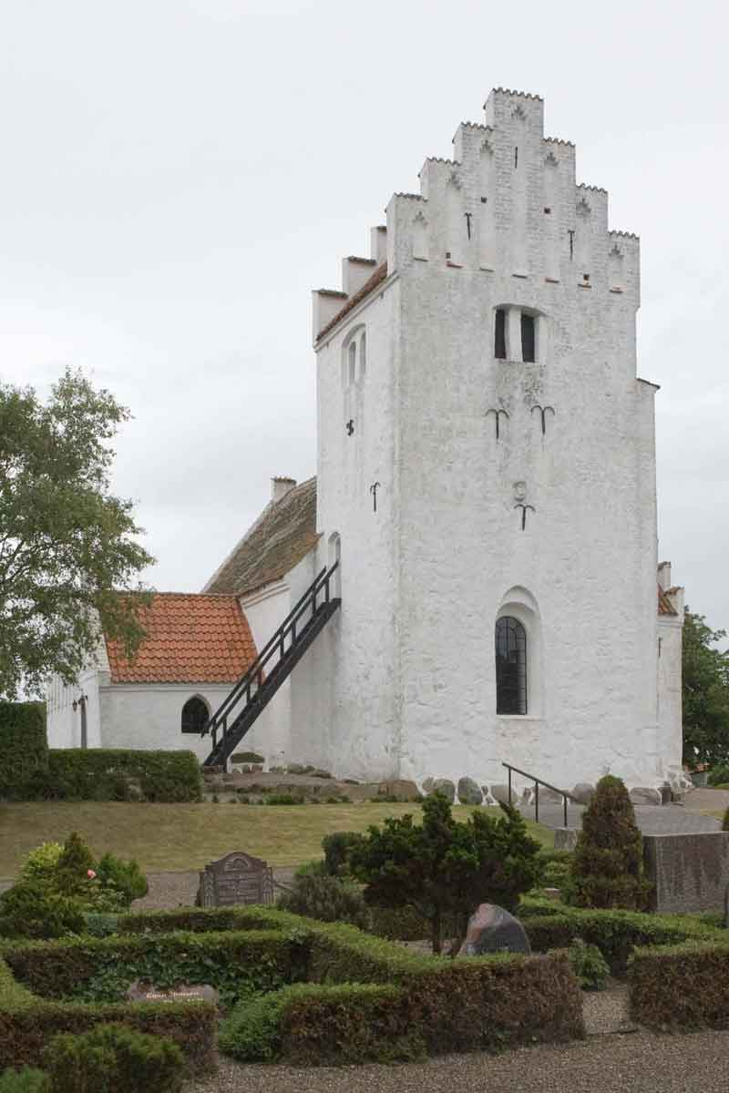 Sejerø Kirke, a rainy day, situated on the small Danish isle Sejerø